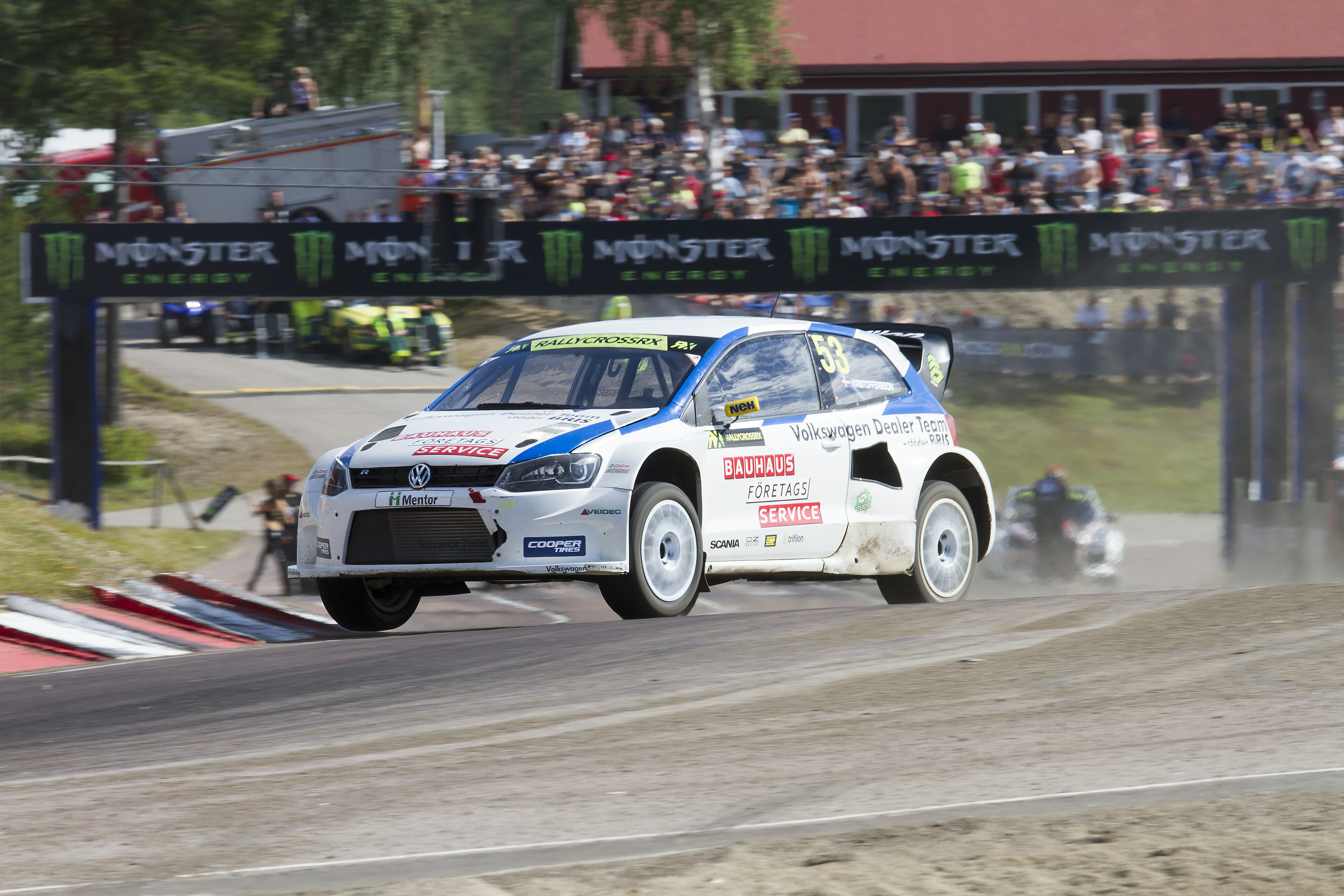 Swedish rallycross driver Johan Kirstoffersson in his VW Polo Supercar. Round 5 of the 2014 FIA World Rallycross Championship, at Höljes Motorstadion, Sweden.